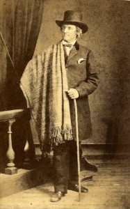 Photo of John Hough James, used with permission from Elizabeth Brice Assistant Dean for Technical Services & Head, Special Collections and Archives Miami University Libraries.